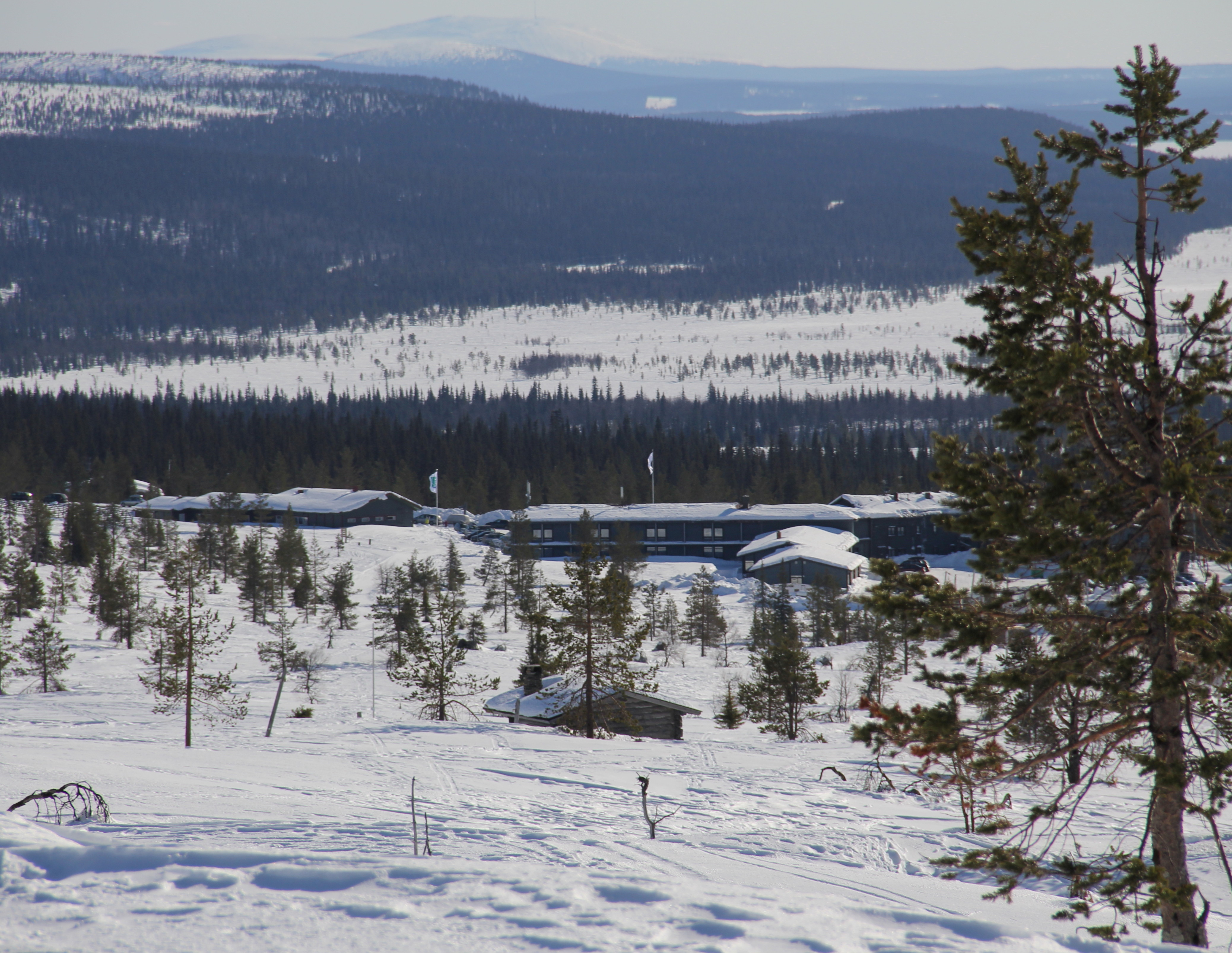 A view from Pallas: Pallastunturi Visitor Centre (left) , Hotel Pallas (right), Ylläs fell (background), hut (foreground). Pallastunturi, Muonio, Finland.